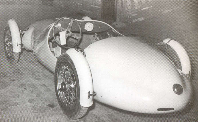 Bandini-Crosley 750 sport siluro